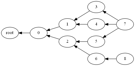 Graph-structured stack from Right to left + root for empty stack